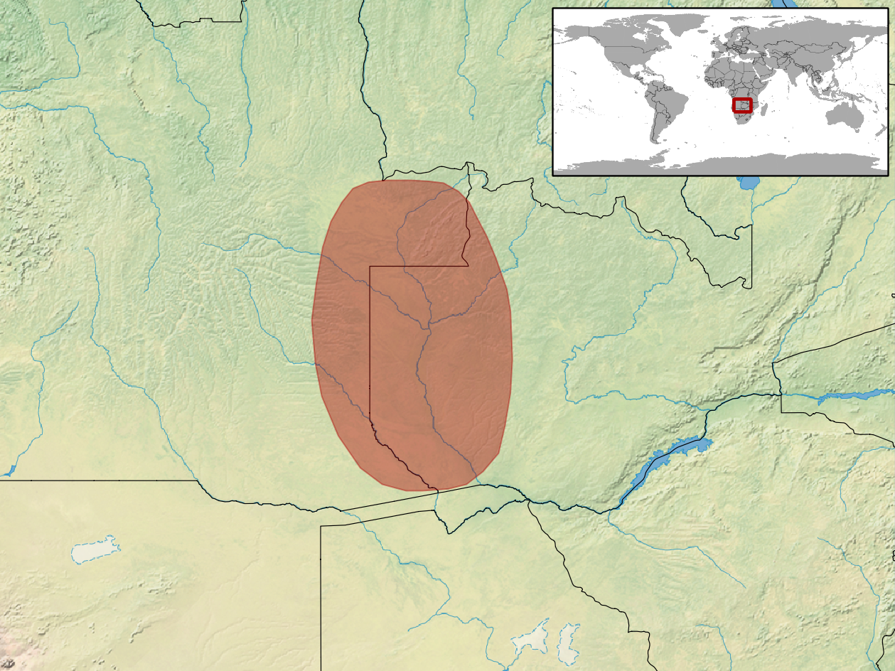 geographic distribution of Zygaspis nigra (Native: Angola (Angola); Zambia)